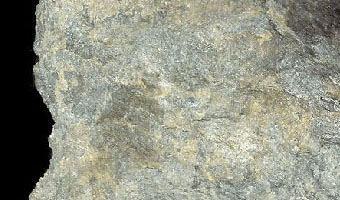 Mica schist from Ľubietová, Veporské vrchy, Slovakia